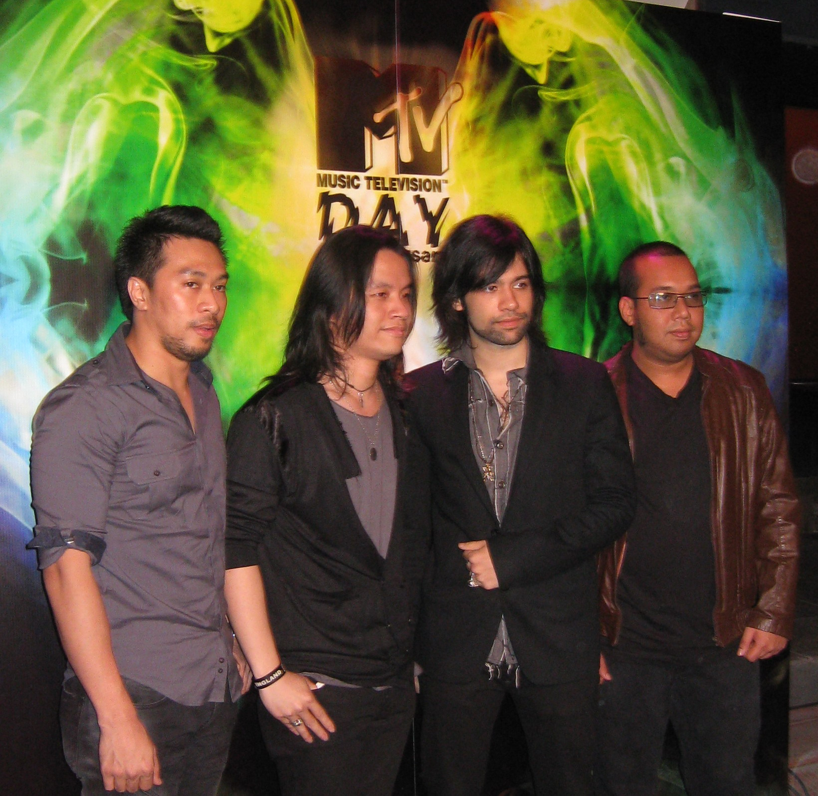 Silent Scream at 7th anniversary of MTV Thailand